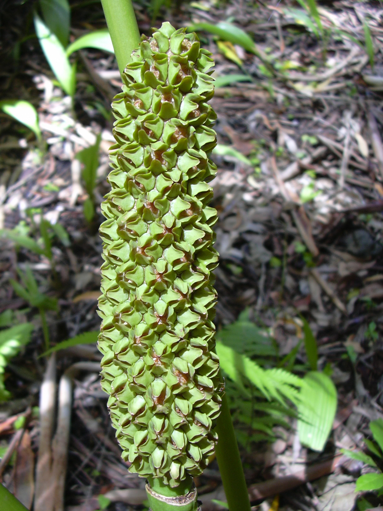 Carludovica palmata (fruit). Location: Maui, Keanae Arboretum